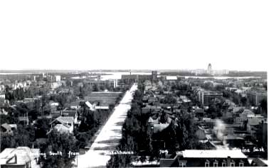 Scarth Street looking south from Hotel Saskatchewan: photo taken in 1927, two years before the drought and Great Depression began. Legislative Buildings are visible in background. Regina was amply prosperous though not nearly as large as was early anticipated it would soon be. Other information Photographer unknown; held by Regina Public Library Photograph Collection, granding unlimited access and use.